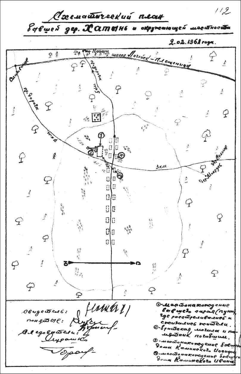 Schematic plan of the former village of Khatyn (destroyed by Nazi punitive forces in 1943) and the surrounding area, 02/02/1961. From the criminal case on the massacre of villagers. (in Russian) Central Archive of the KGB (State Security Agency) of the Republic of Belarus. Arch. criminal case 14864. t. 36. l. 112.